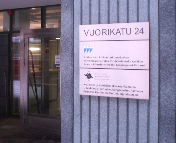 The locale of Institute for the Languages of Finland, Helsinki.